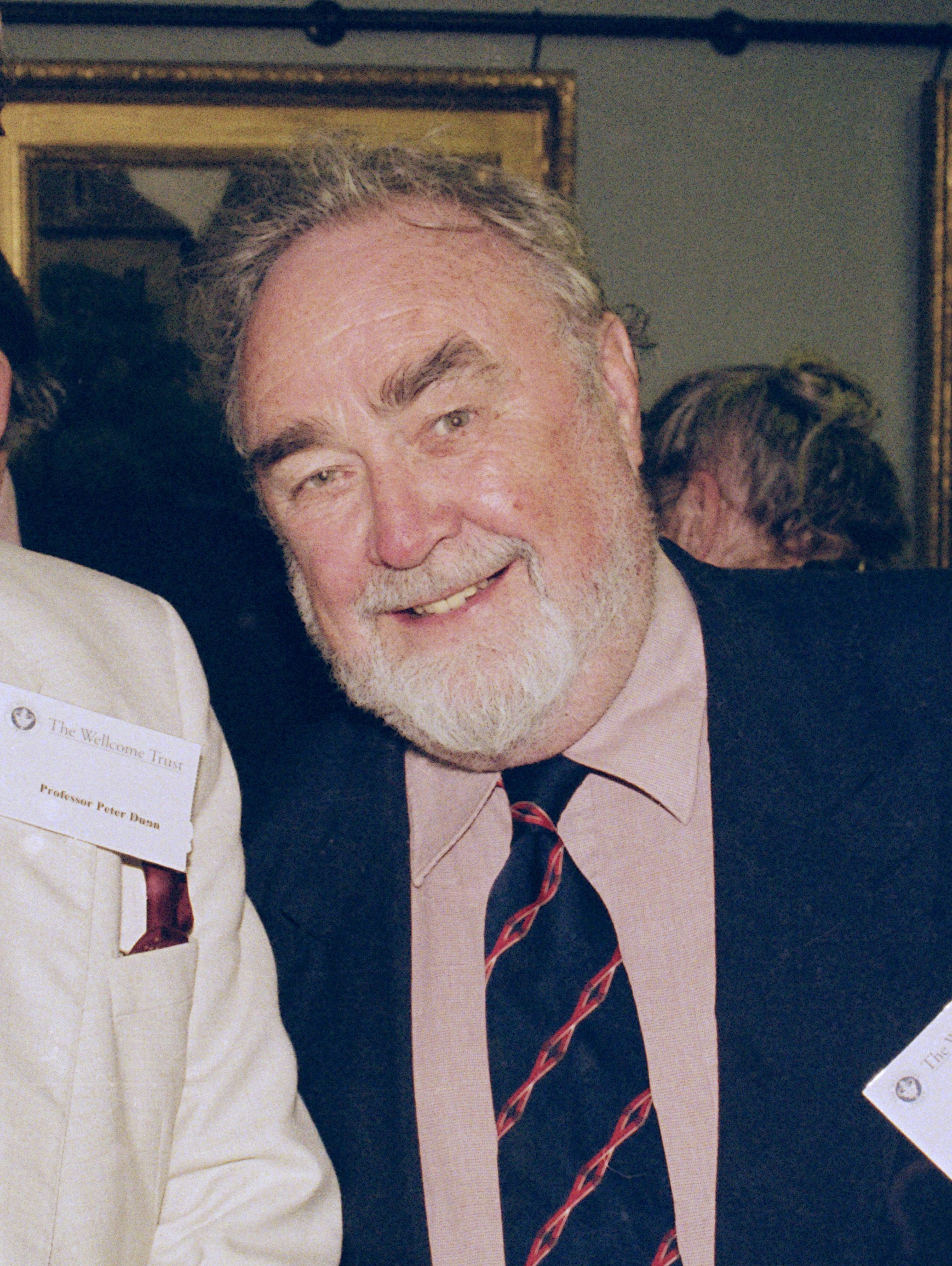 Taken at the Witness Seminar “Maternal Care” held by the History of Twentieth Century Medicine Group.